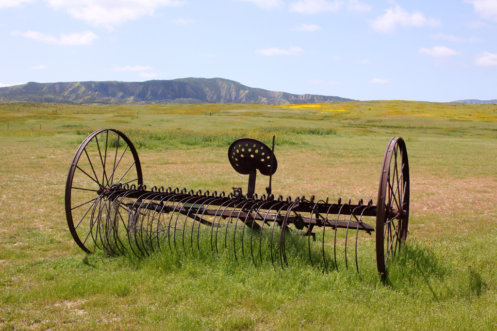 Rear view of an old "sulky" dump hay rake, Carrizo plains, California, USA. – Back in the days when hay was transported to the barn as 'loose hay', often by being pitched on wagons by hand with pitch forks this sort of a rake worked just fine, and was a step forward from gathering the hay up as it was mowed and piling it by hand – usually in shocks. reference